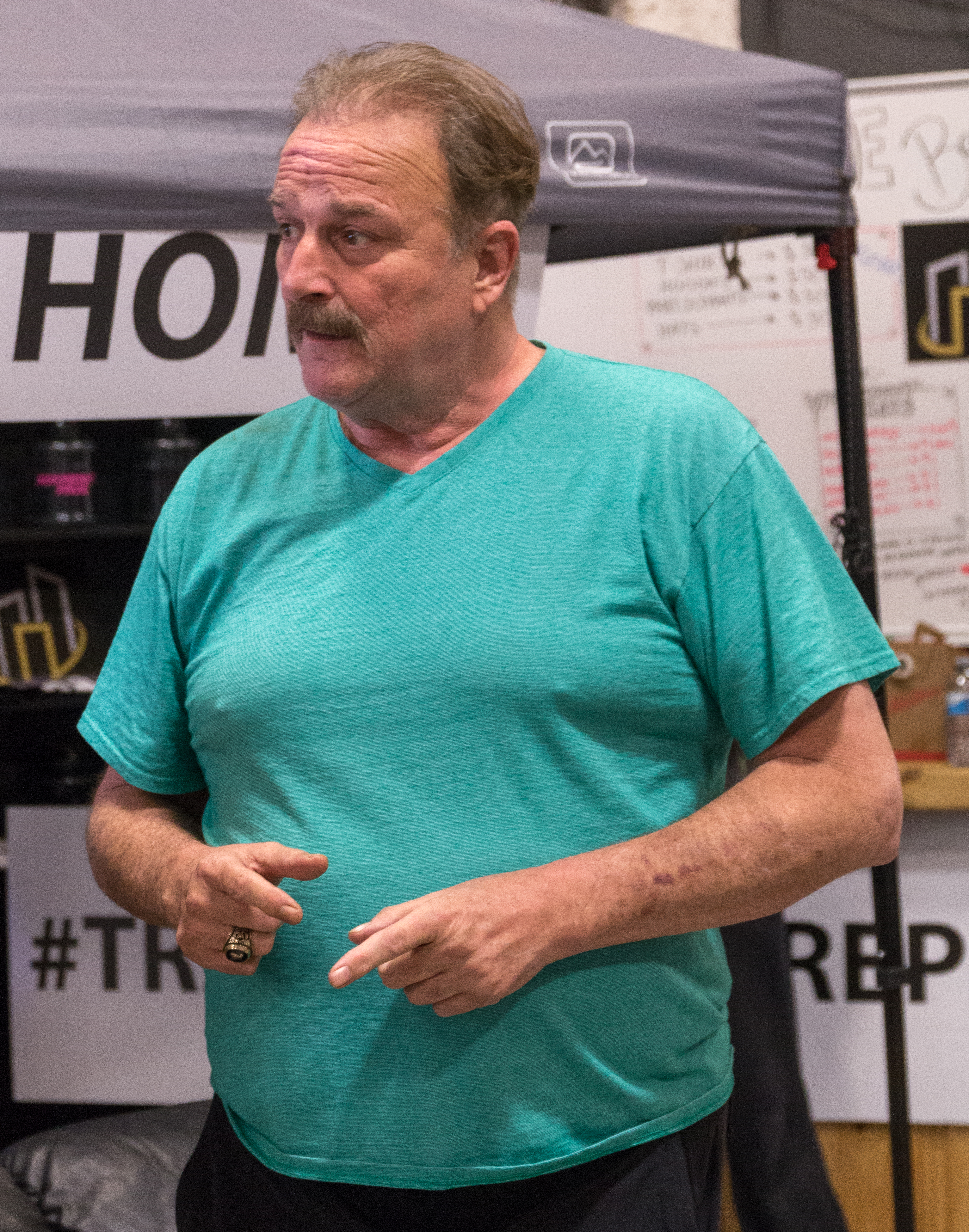 Jake "The Snake" Roberts at a seminar hosted by Cross Body Pro Wrestling Academy in Kitchener, ON